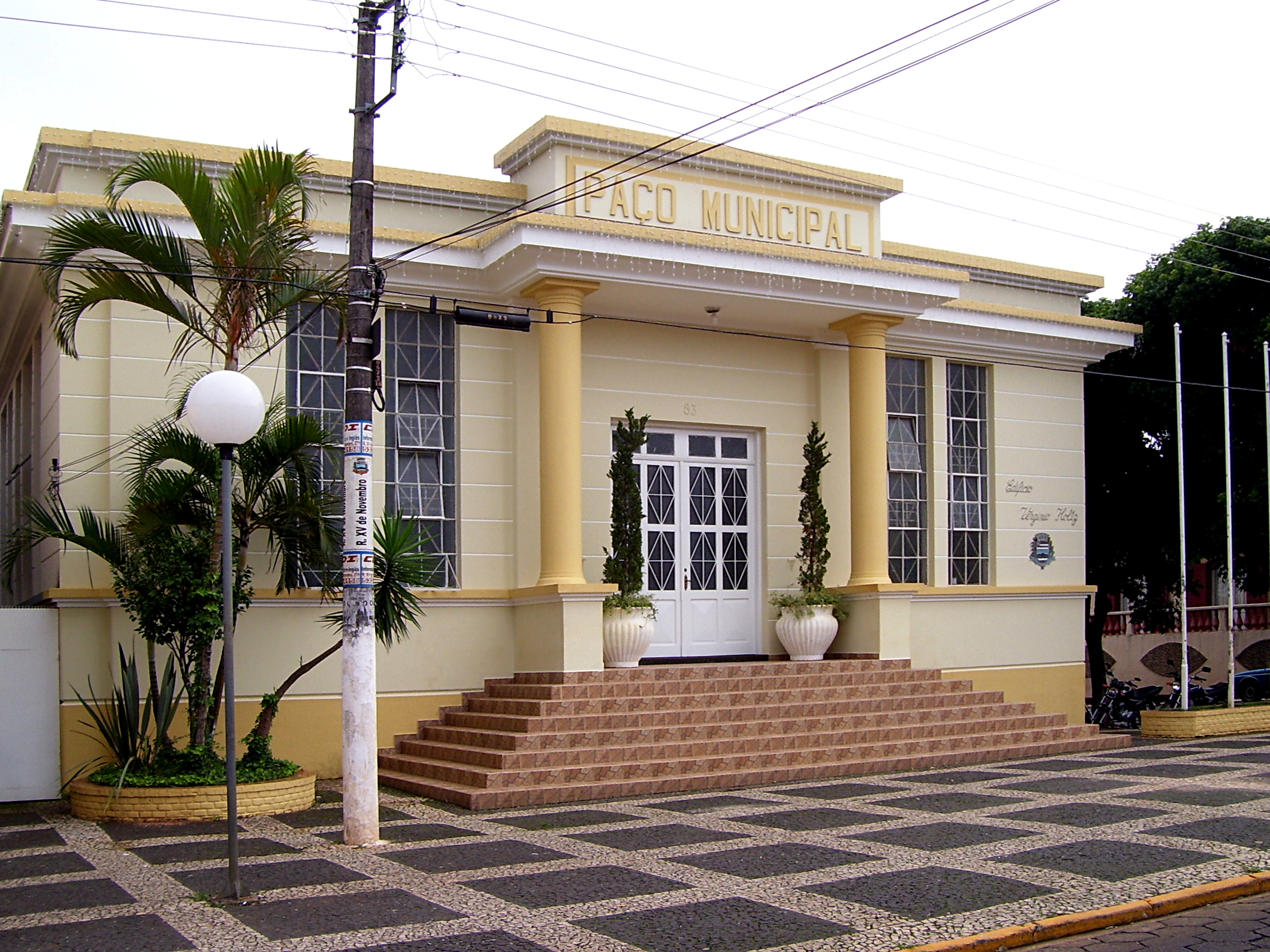 City Hall of Itararé, São Paulo, Brazil.